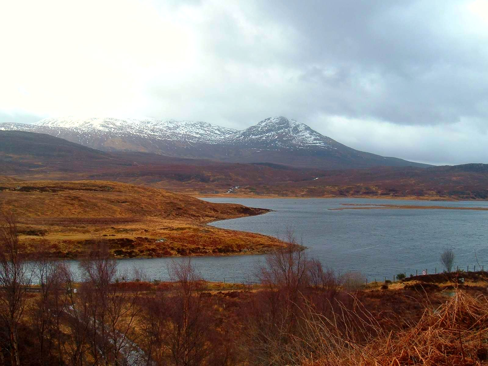 Sights such as this are why people opine that this is "God's Own Country"